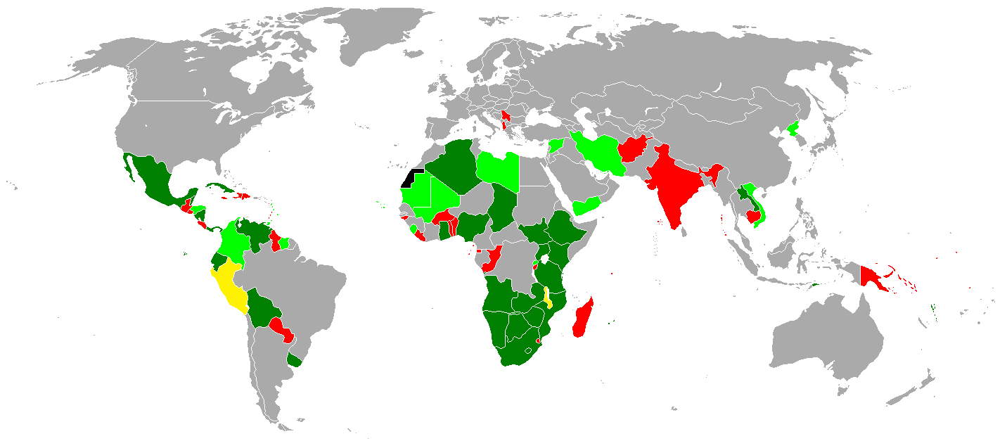 Status of foreign relations between Sahrawi Arab Democratic Republic (SADR) and other countries Ambassador-level diplomatic relations Diplomatic recognition Diplomatic relations or recognition frozen or suspended Diplomatic relations or recognition canceled or withdrawn